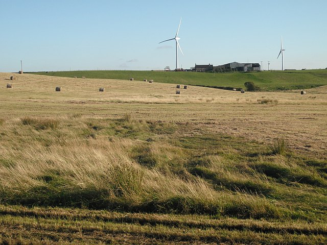 Upperton Farm Late hay making in a prolonged settled spell.